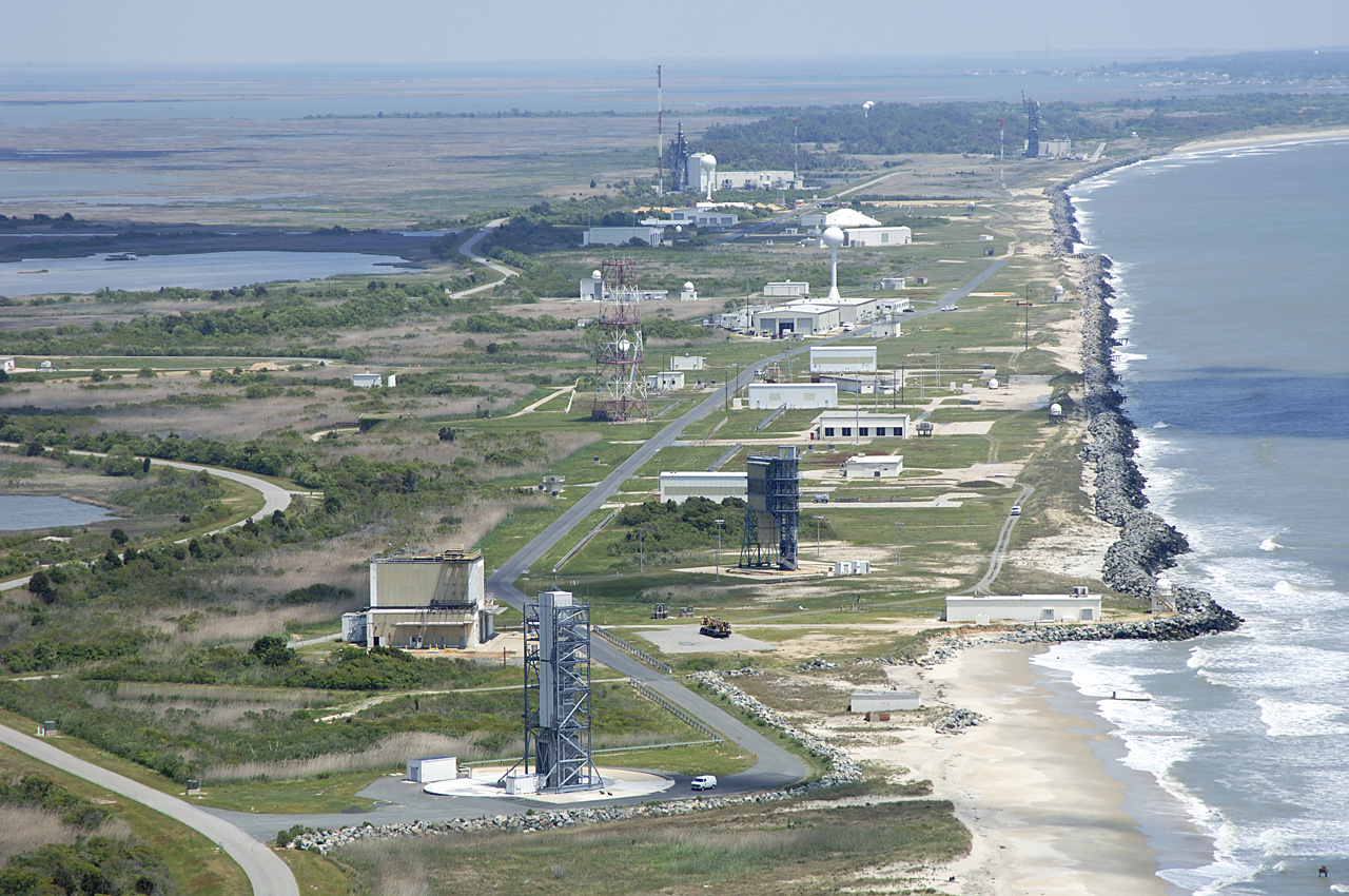 Wallops Island, Virginia An aerial view of the launch pads of the Mid-Atlantic Regional Spaceport and NASA's Wallops Flight Facility.